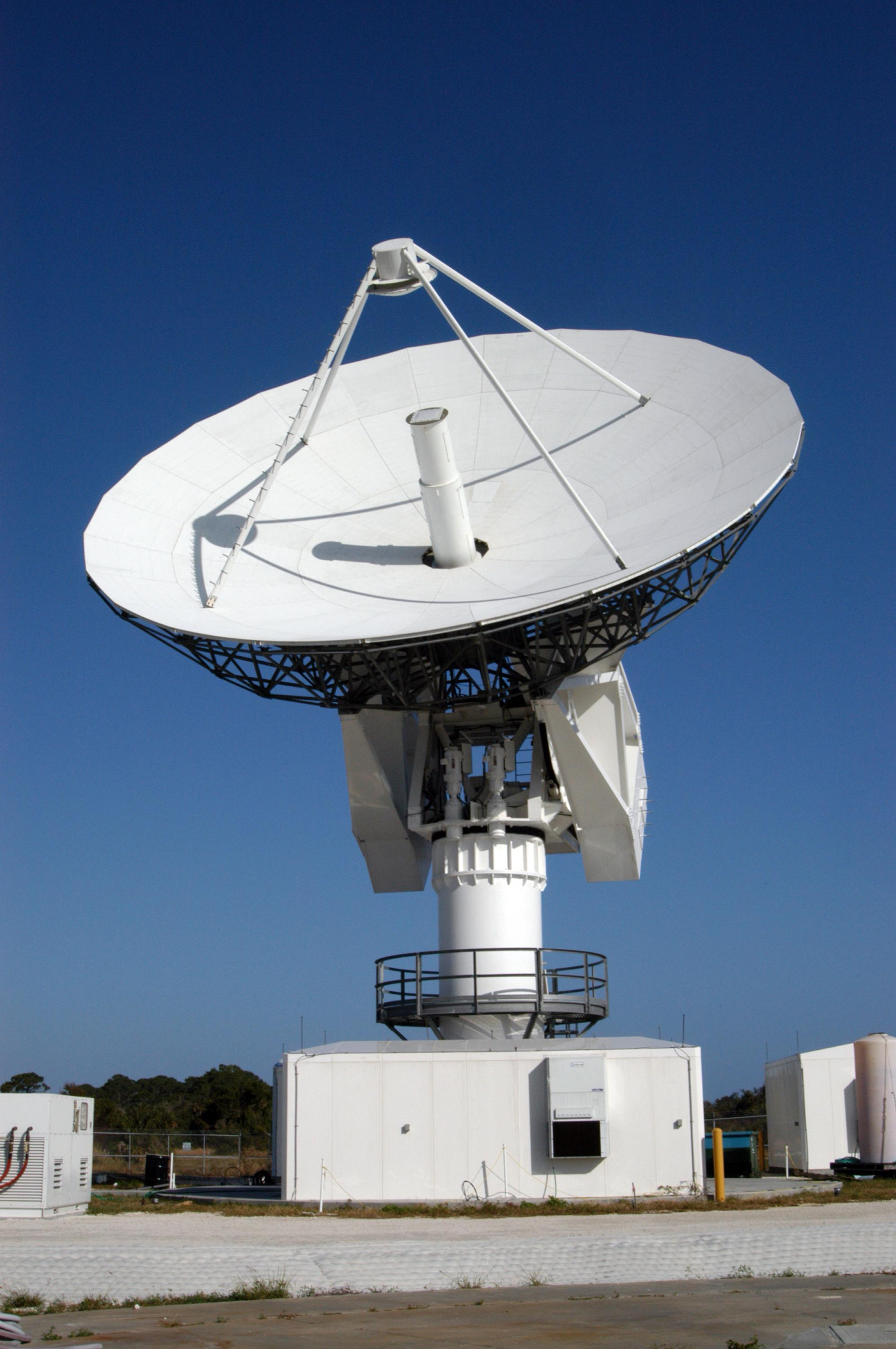 An 50 Feet dish Antenna of an 3 kW C-band Radar. No copyright protection is asserted for this photograph. If a recognizable person appears in this photograph, use for commercial purposes may infringe a right of privacy or publicity. It may not be used to state or imply the endorsement by NASA employees of a commercial product, process or service, or used in any other manner that might mislead. Accordingly, it is requested that if this photograph is used in advertising and other commercial promotion, layout and copy be submitted to NASA prior to release. PHOTO CREDIT: NASA or National Aeronautics and Space Administration KENNEDY SPACE CENTER, FLA. – This new C-band, 3 megawatt radar with a 50-foot dish antenna has recently been installed on north Kennedy Space Center. It is one of the largest of its kind in the world, providing higher definition imagery than has ever been available before. Working in concert with two new NASA-owned X-band radars mounted on the solid rocket booster retrieval ships, tracking the space shuttle and expendable launch vehicles with this new capability will provide more detail than NASA has ever observed by radar before. The first use of this C-band radar will be for the launch of the Atlas V rocket sending the New Horizons probe toward Pluto. The radar is operated under a NASA contract with the U.S. Navy who owns the radar. ITU-classificatio: C band Radiolocation land station in the radiolocation service.